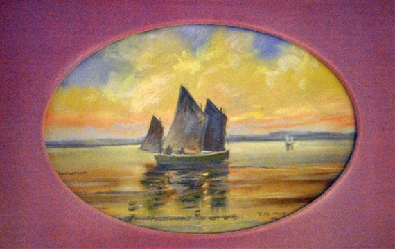 Nautical scene by Robert Henry Lindsay (1868-1938). Pastel on paper, 1906. 23.5 cm x 36.8 cm.